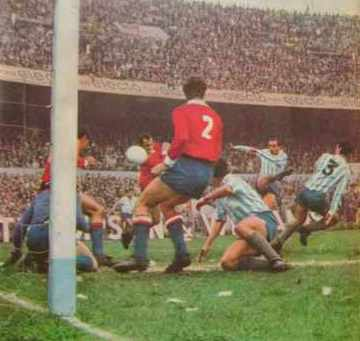 Avellaneda derby Independite - Racing in 1968